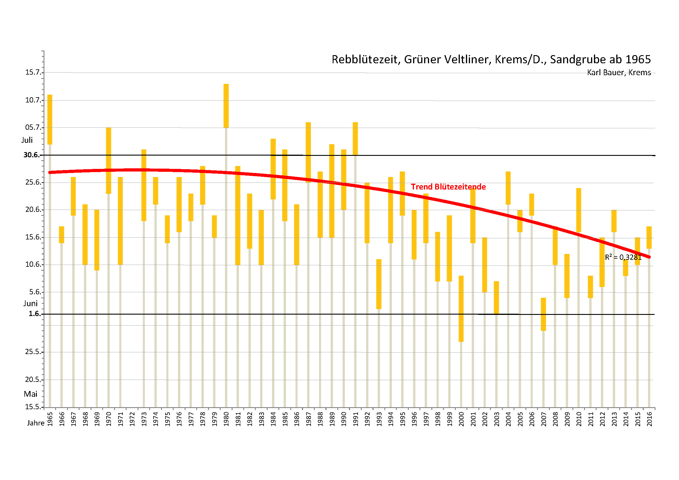 This bar chart shows the timing of flowering of Vitis vinifera (variety Grüner Veltliner) at the location Krems/D. in Austria, starting in 1965.